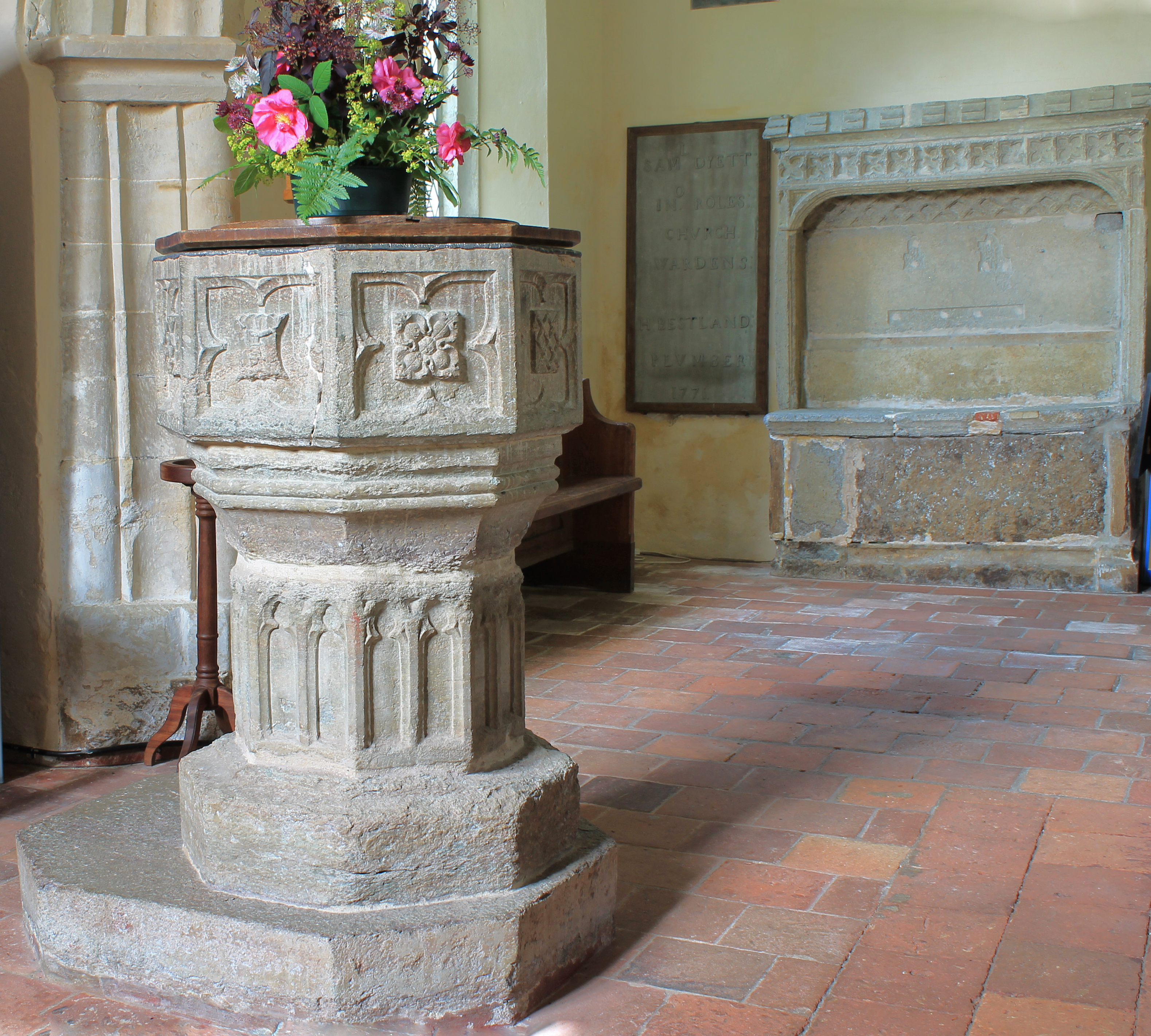 Purbeck Marble font, c.1500, in the church of St Mary, Lytchett Matravers.